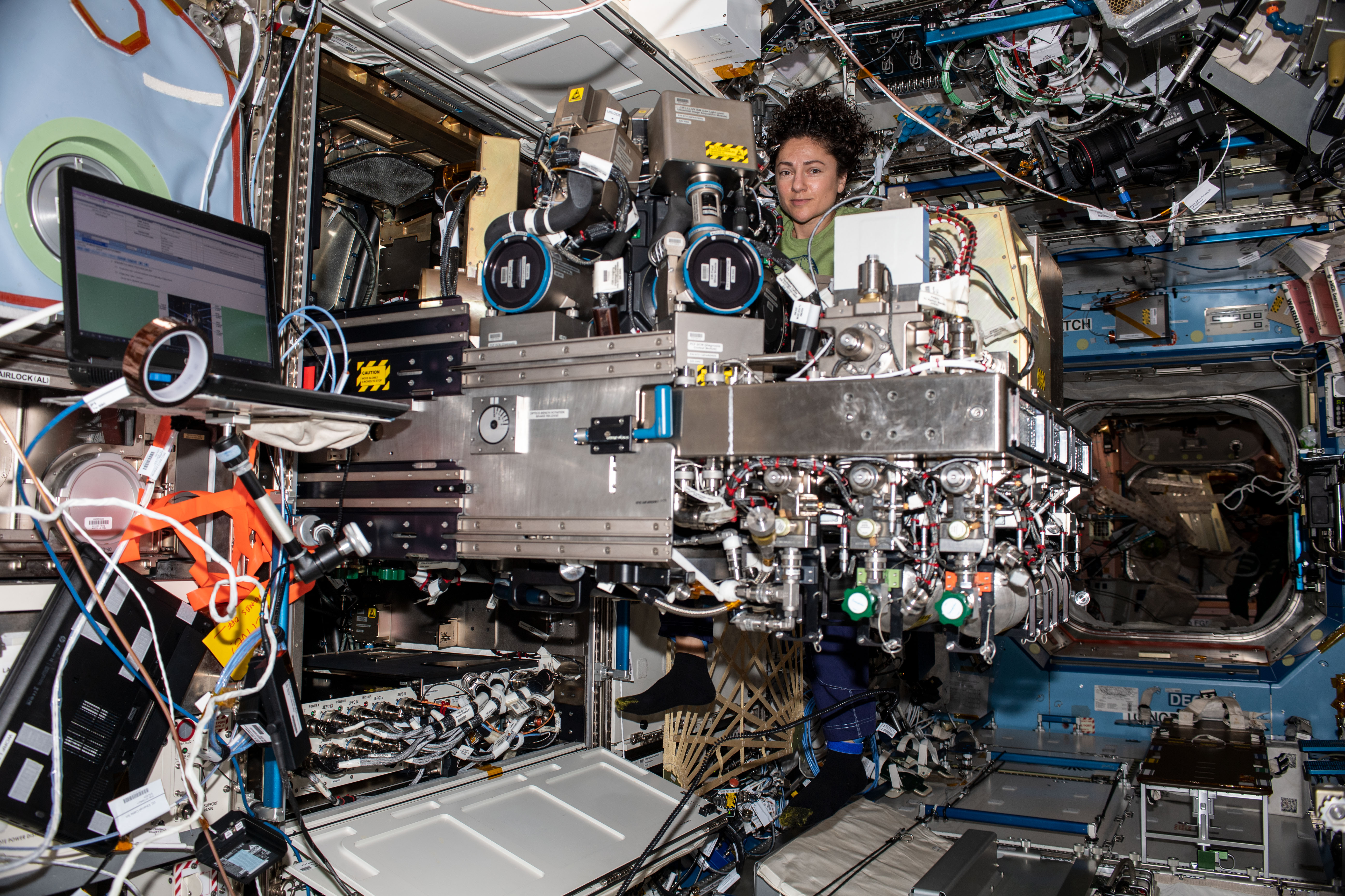 NASA astronaut Jessica Meir of Expedition 61 works on components of the Combustion Integrated Rack aboard the International Space Station's U.S. Destiny laboratory module.